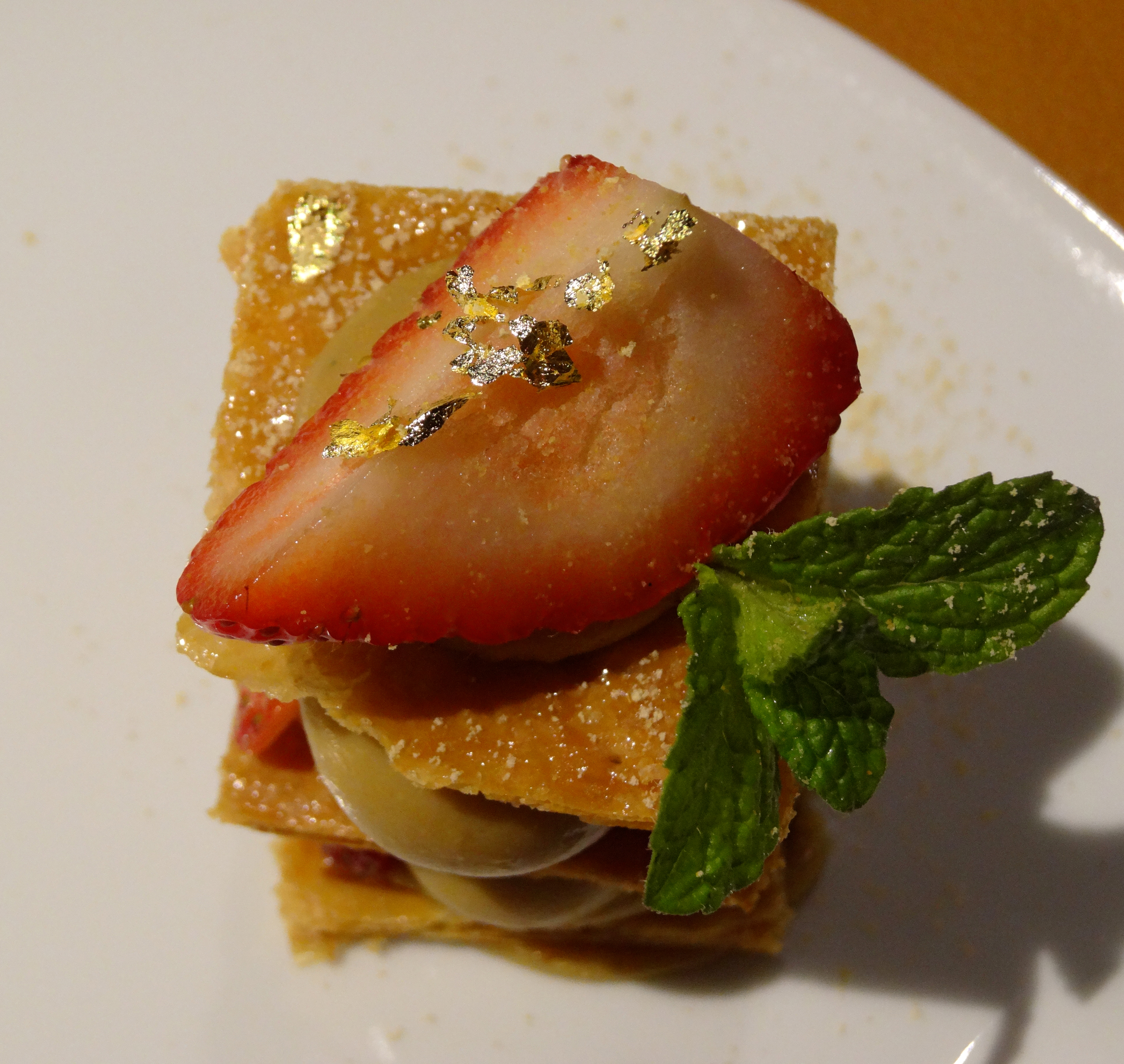 Nishimuraya Hotel Shogetsutei in Kinosaki Onsen town, Toyooka, Hyogo prefecture, Japan.